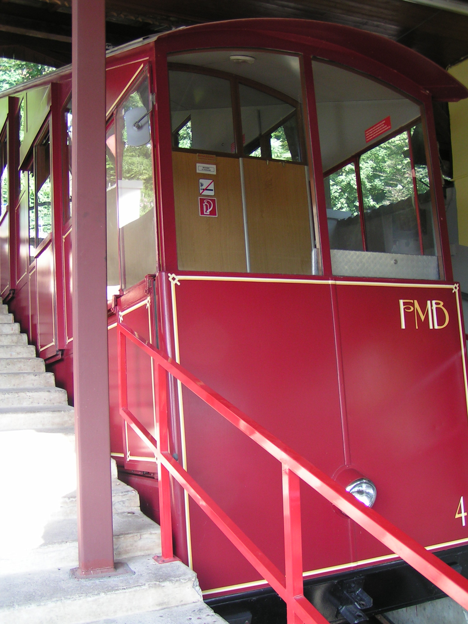 Upper section car of the Monte Brè funicular. For more information, see Wikipedia article Monte Brè funicular.